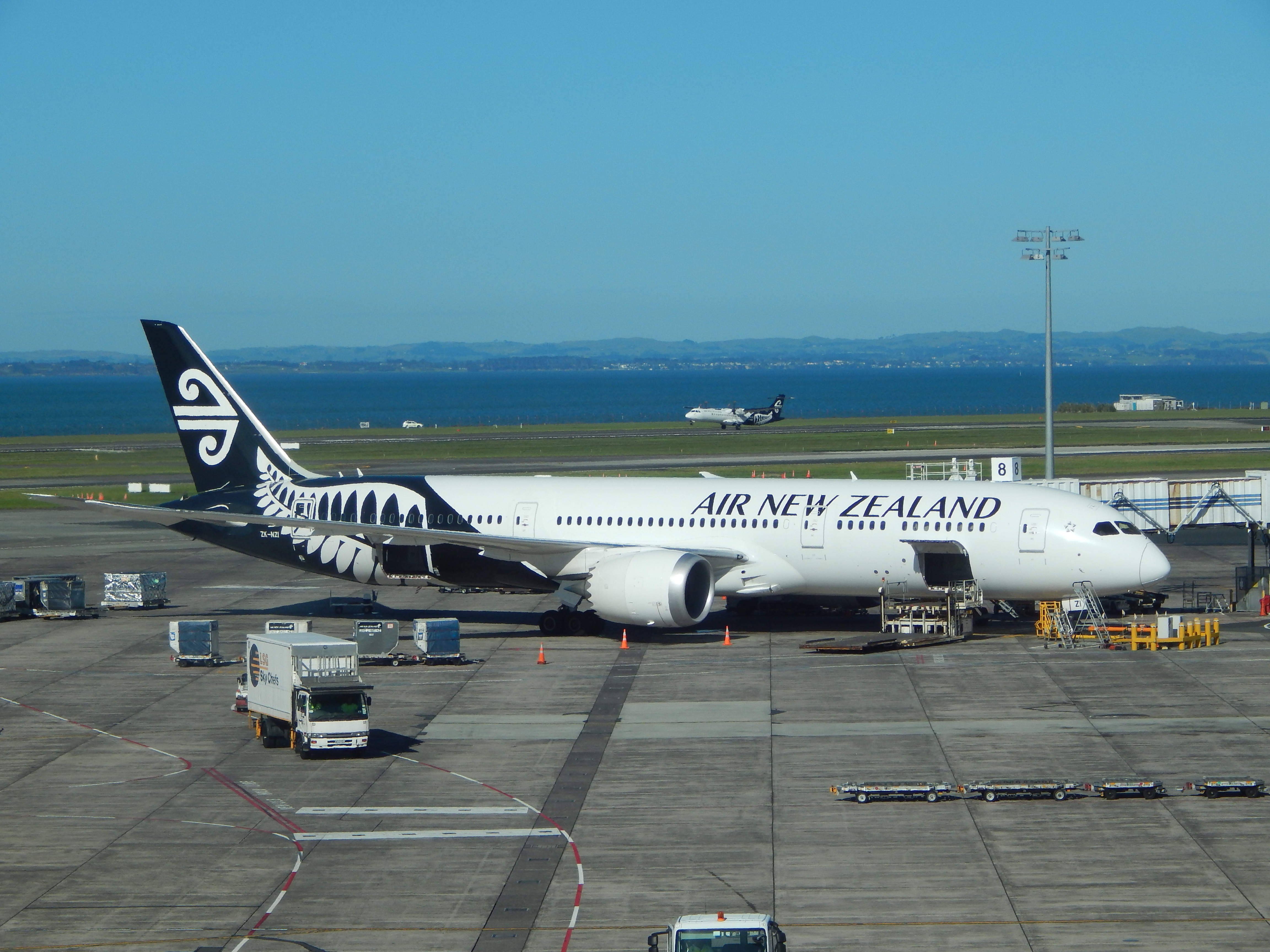 Readying for the trip to Perth. A company ATR just landing.